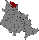 Location of Amer in Selva